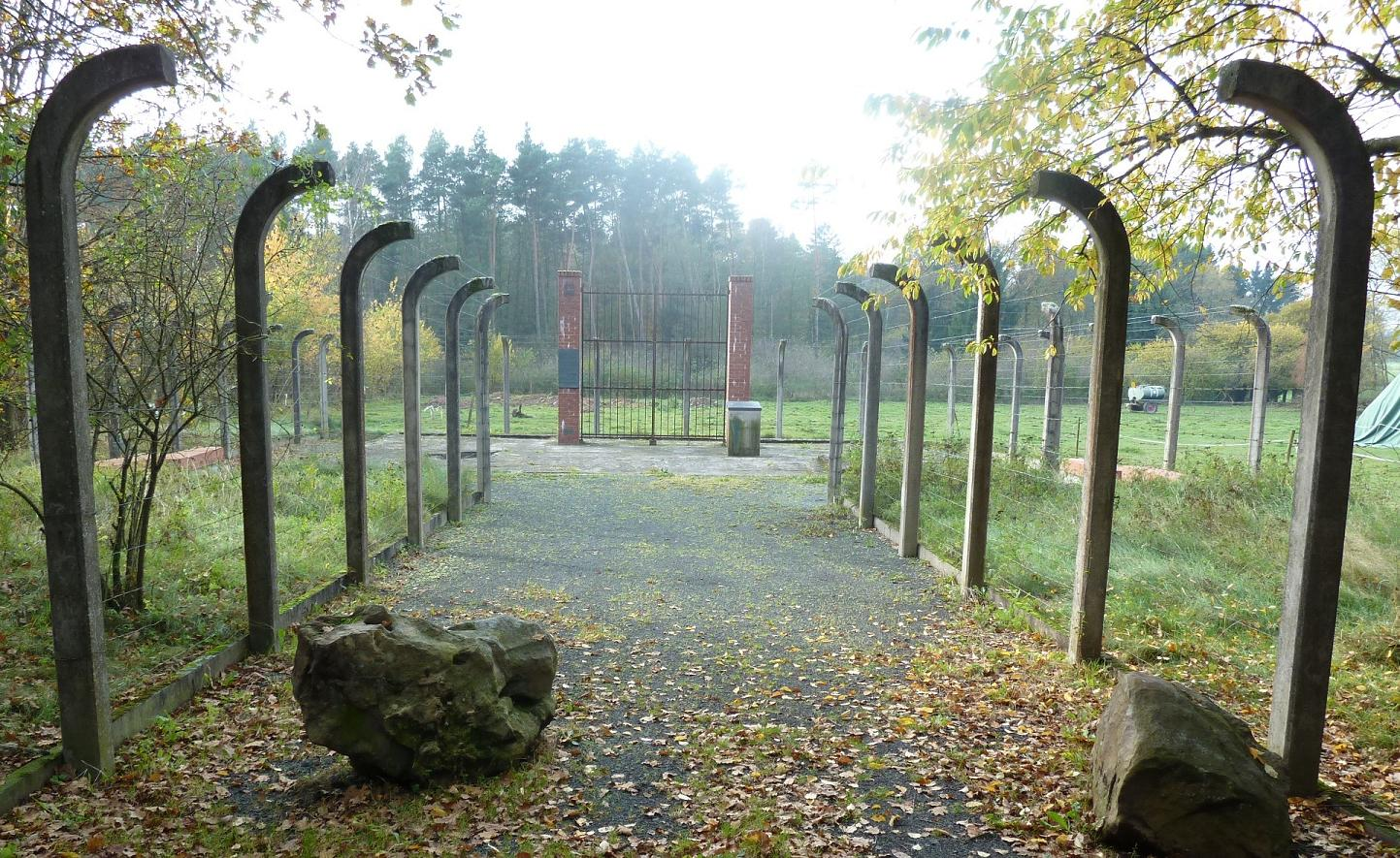 Muenchmuehle memorial at the location of the former forced labor camp and concentration camp Muenchmuehle of the Allendorf explosives factory.